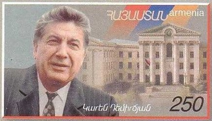 Stamp of Armenia